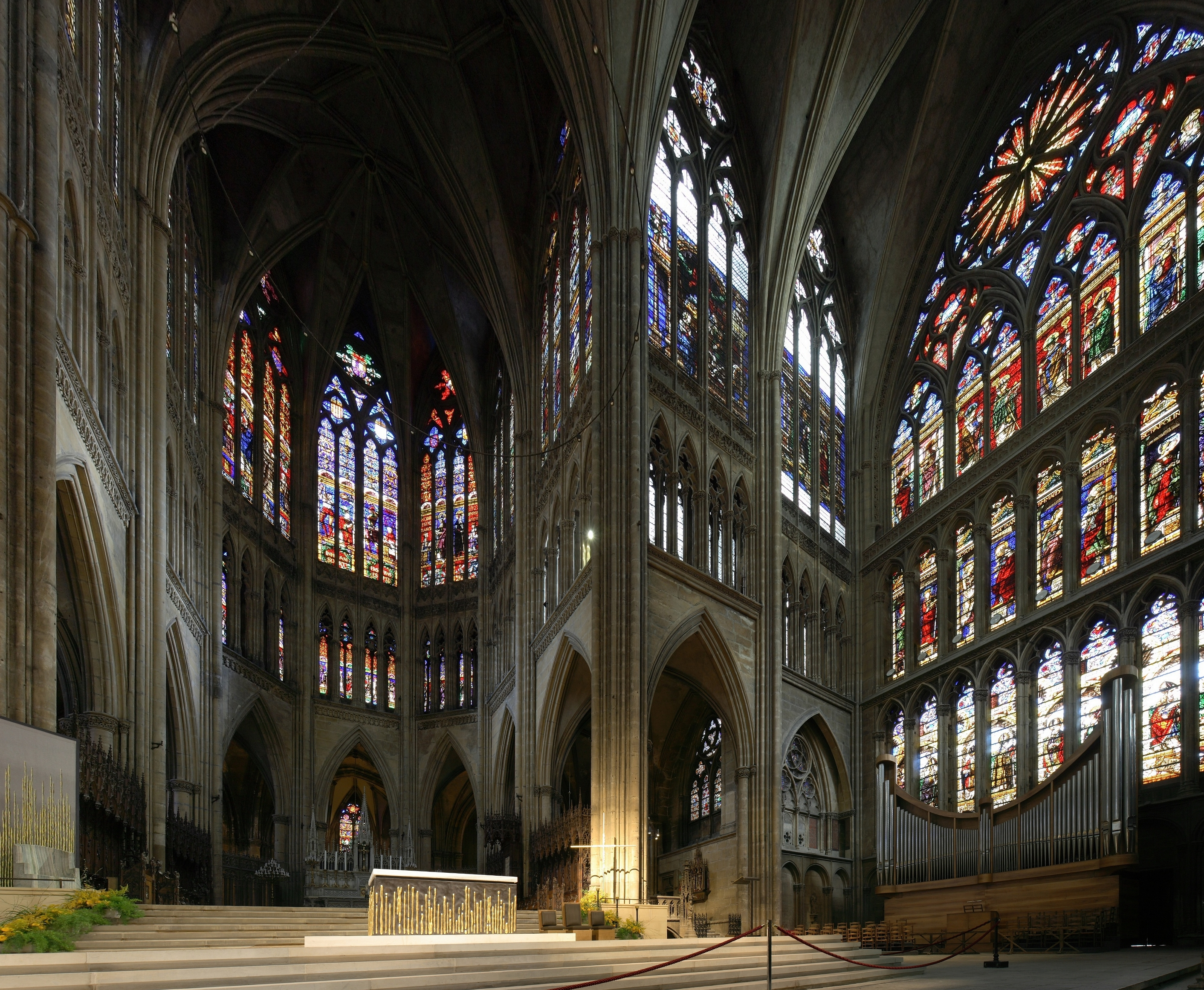 Part of the stained glass windows of the Cathedral Saint-Étienne of Metz. On the left part of the picture, the chior, and on the right side, the right part of the transept. The cathedral of Metz has the largest surface of stained glasses and the third highest nave in France. This picture is a 2x3 pictures panorama, made with Hugin and very slightly corrected with Gimp.